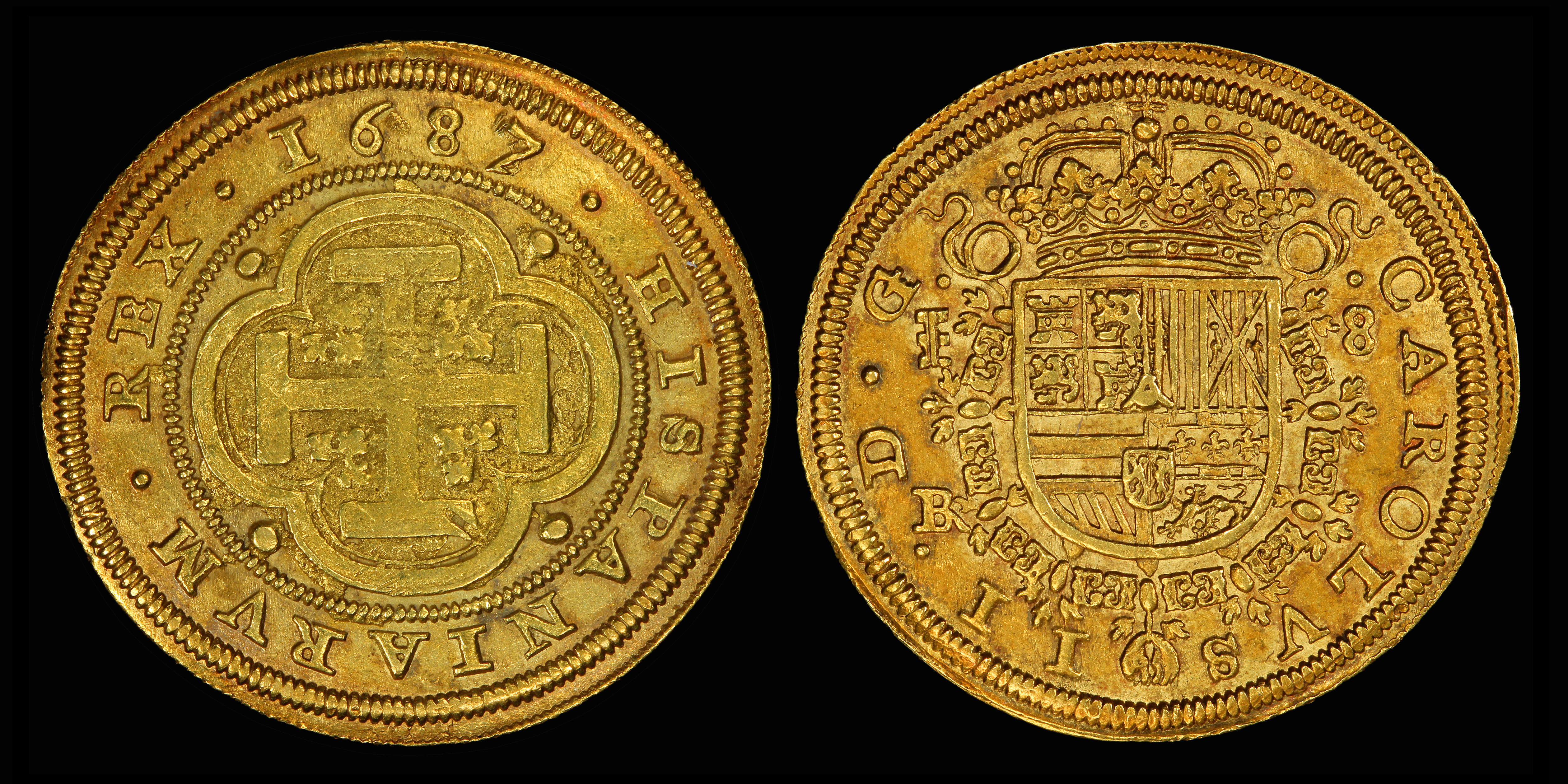 Eight gold Spanish escudo (1687), issued during the reign of Carlos II of Spain.